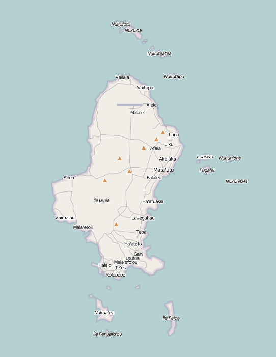 Map of Wallis Geographic limits of the map: N: -13.169° S: -13.403° W: -176.286° E: -176.1°